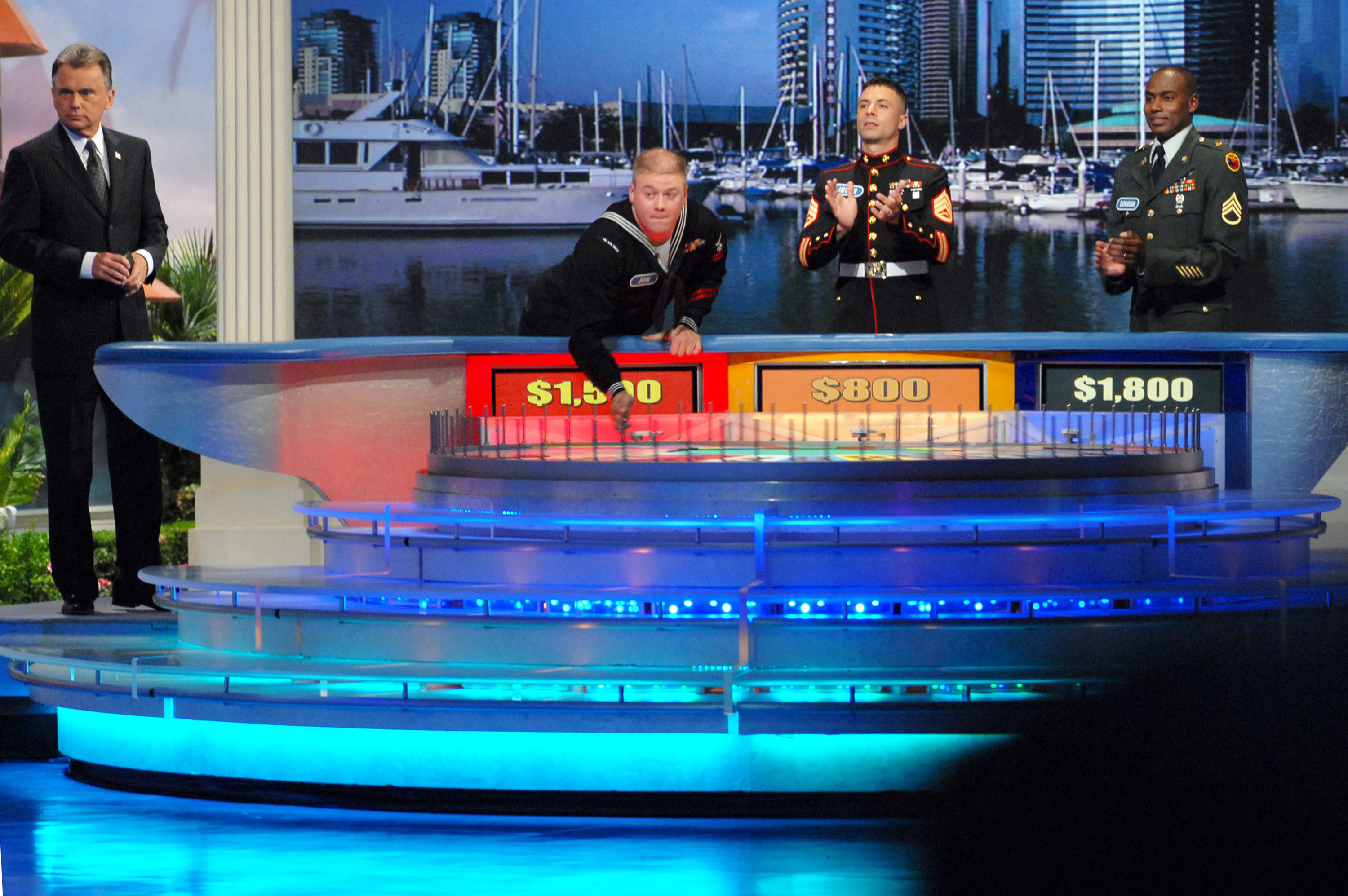 SAN DIEGO (March 25, 2007) – Machinist’s Mate 2nd Class John Gates spins the wheel as a contestant on the popular television game show Wheel of Fortune. Wheel of Fortune was in San Diego filming episodes for its Armed Forces Week, which is scheduled to air in May. U.S. Navy photo By Mass Communication Specialist 3rd Class Patrick M. Kearney (RELEASED)